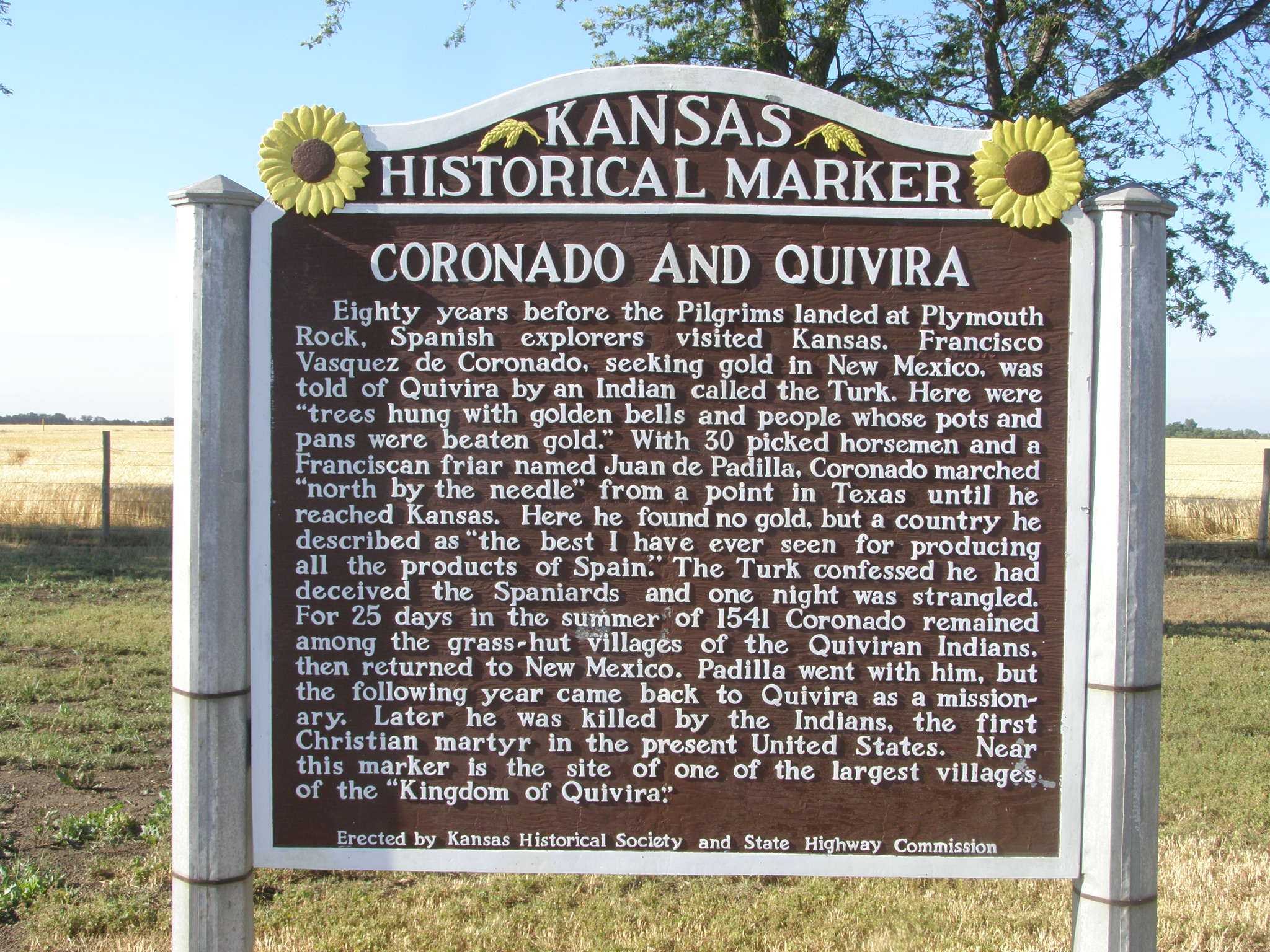 Coronado and Quivira, Kansas Historical Marker at Cow Creek Station wayside, Kansas